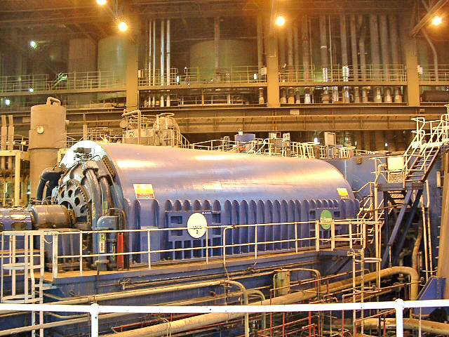 Drax Power Station 660 Mw Generator This is unit No2 Generator one of six.